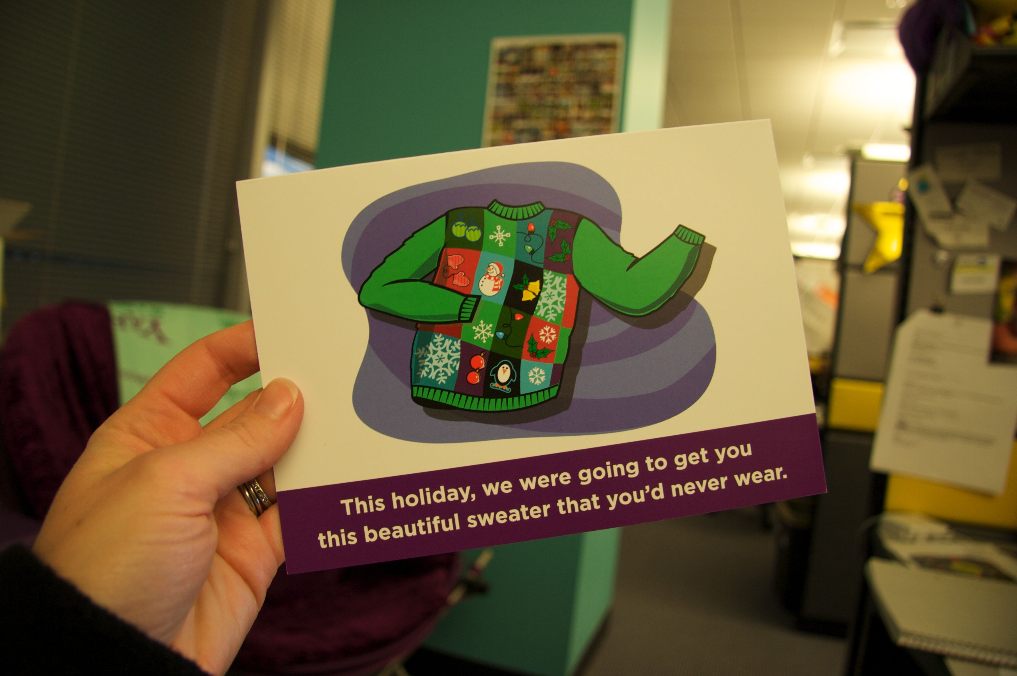 Charity gift cards for good little Yahoos